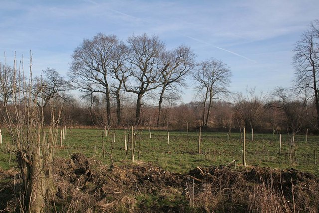 New afforestation looking into Rand Wood This patch is currently shown as open ground on OS maps.